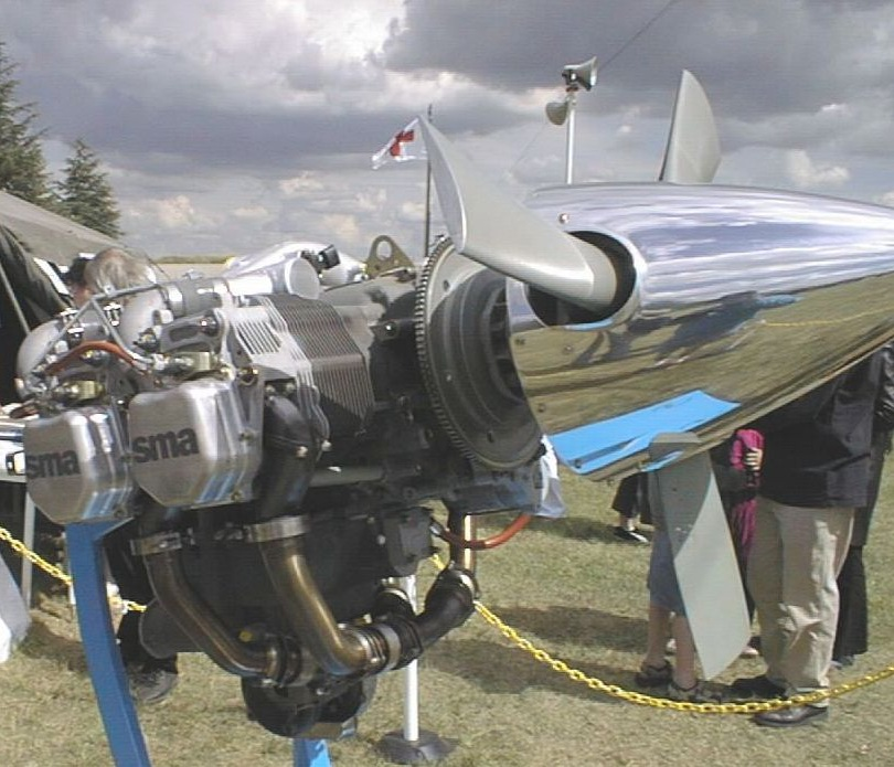 SMA SR305-230 engine - Avord Air Base.